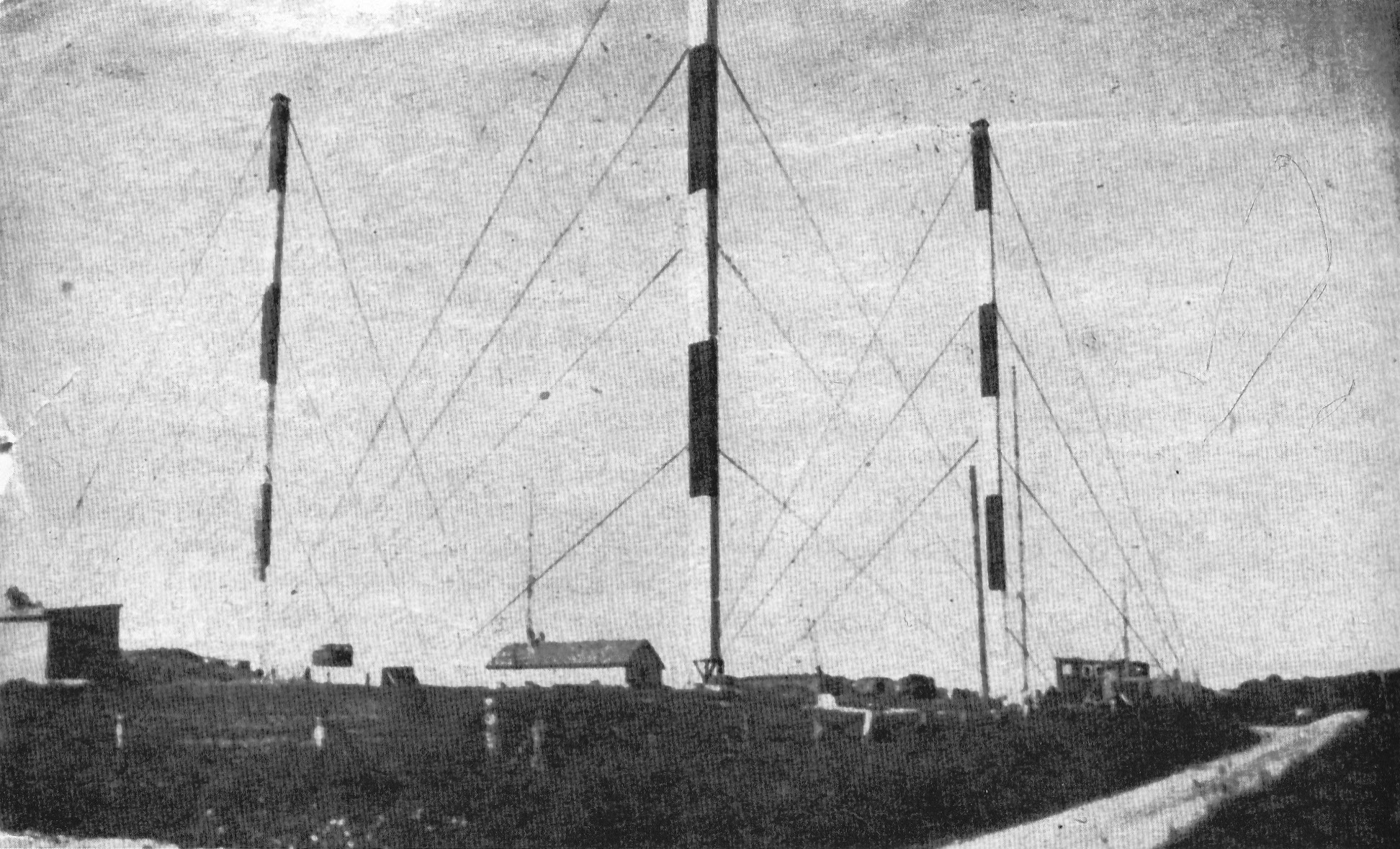 The aerials of the German mobile radio sender L (Lappland), as built outside Oslo in Norway.